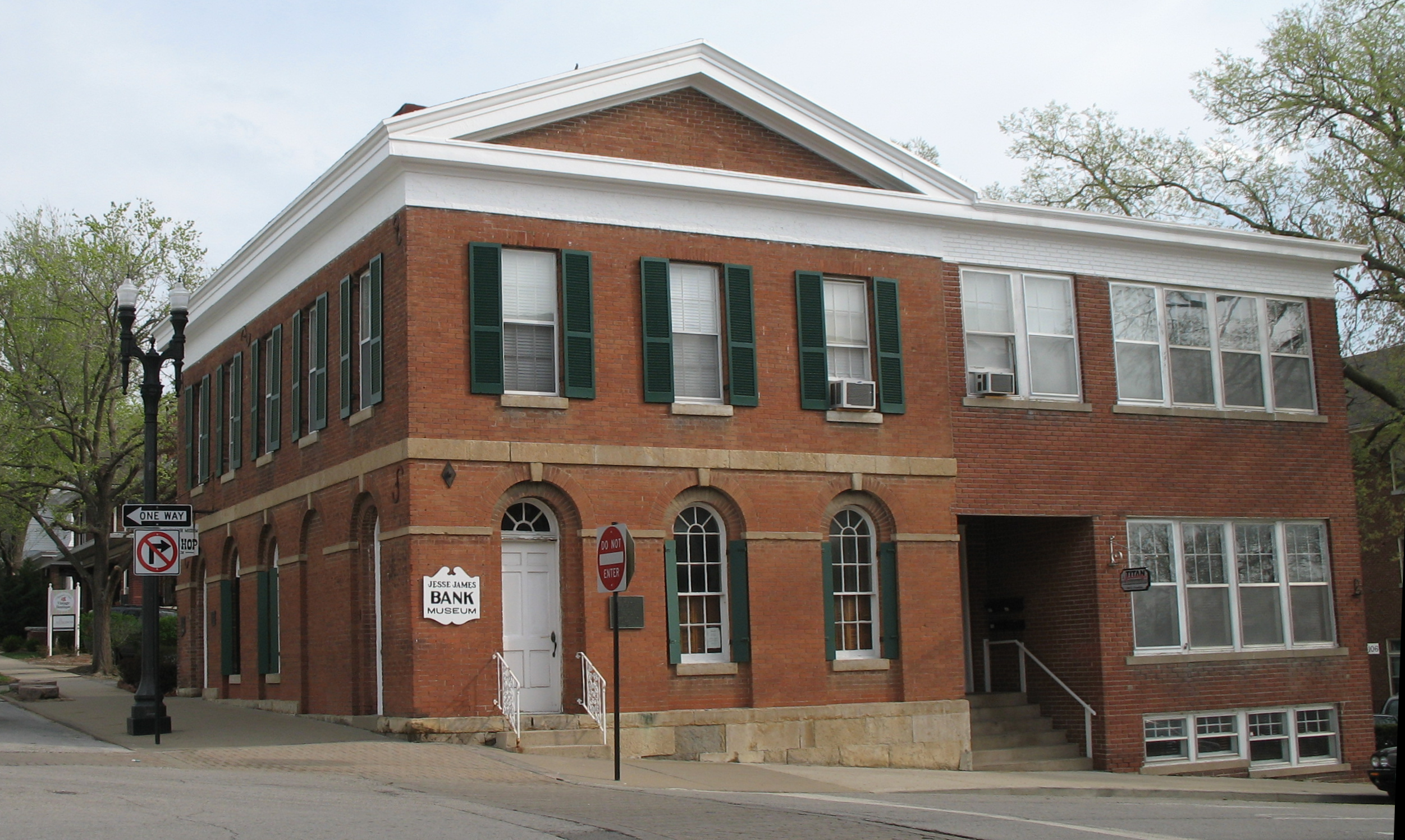 Clay County Savings Association Building, scene of first daylight bank robbery in the United States (by James-Younger Gang on February 13, 1866. Photo by poster in March 2007.